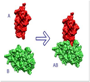 Հյուր և տանտեր